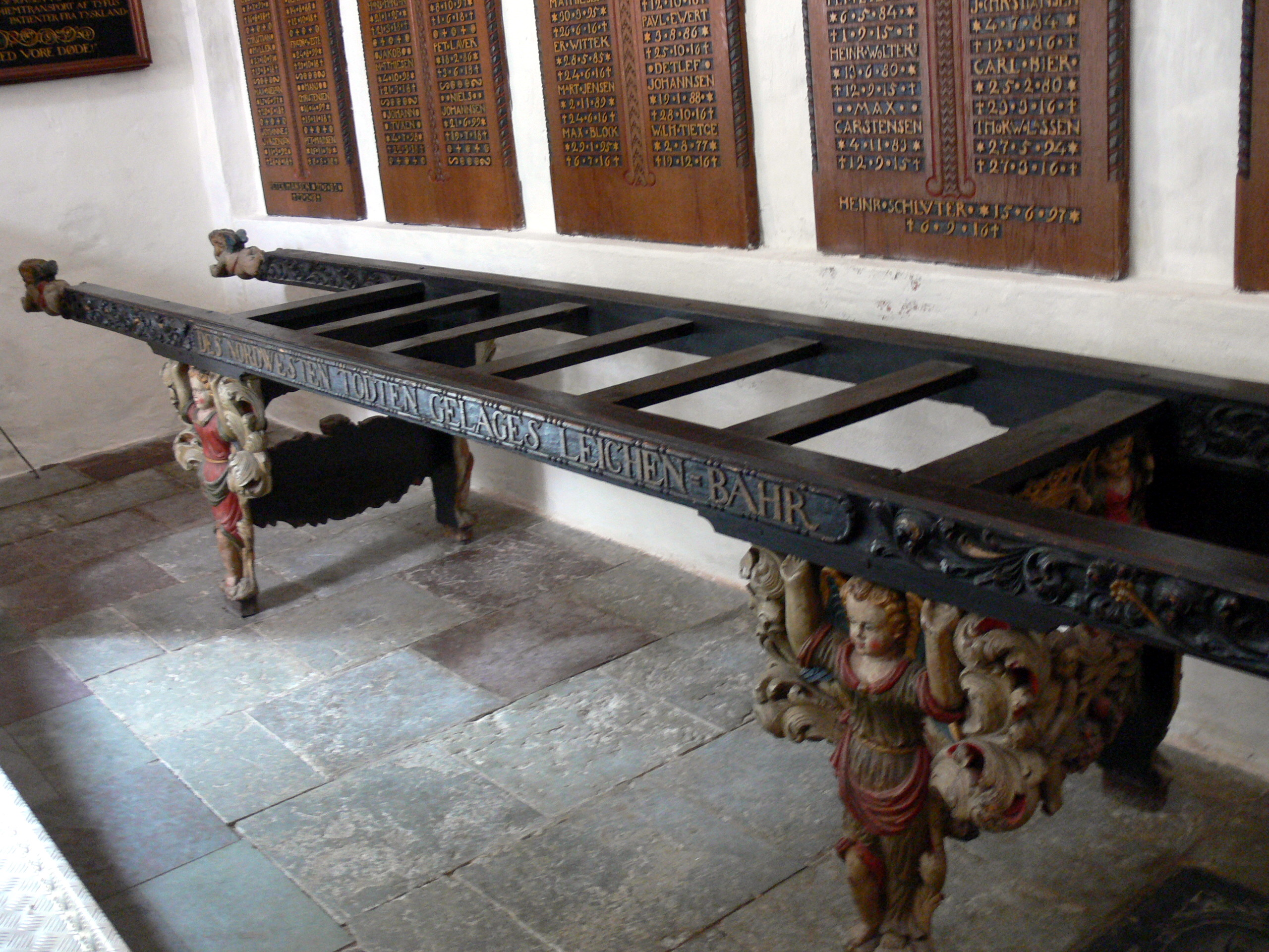 Tønder ( Denmark ). Christ church - Baroque stretcher for the transport of corpses.